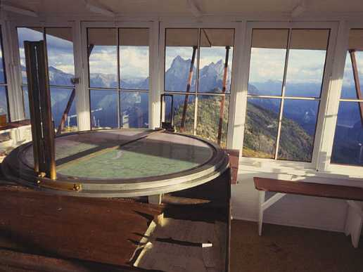 Desolation lookout, a fire lookout tower in North Cascades National Park, Washington, USA. The instrument is a Alidade or Firefinder, to read the direction to a fire. With a second sighting, a cross bearing determines the position of the fire.